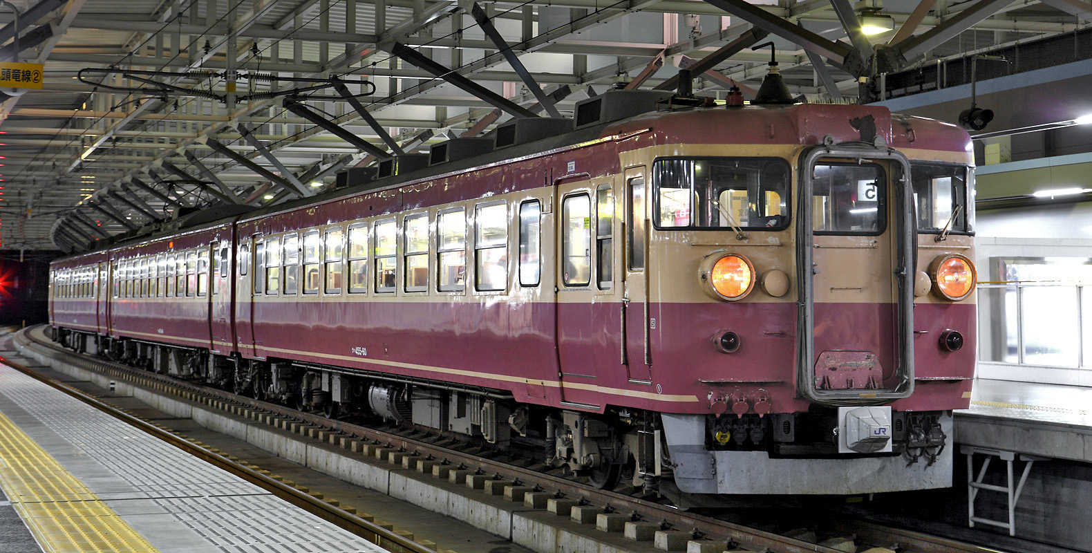 JNR 475 series EMU at Fukui Station (金サワ A19編成)